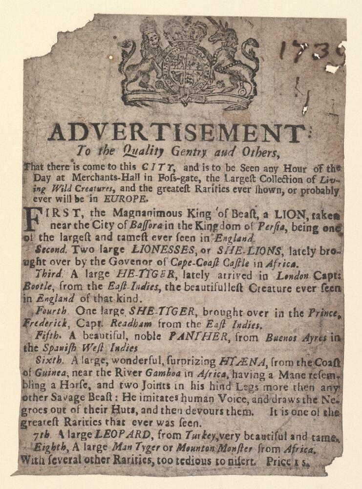 Handbill of Merchant's Hall, [1739], announcing A lion, lionesses, tigers, etc.; "with several other rarities, too tedious to mention"; 1739 (manuscript); Lion; Two large lionesses, or she-lions; Large he-tiger; One large she-tiger; Beautiful, noble panther; Large, wonderful, surprizing hyena; Large leopard; Large man tyger or Mounton Monster from Africa; [Handbill of Merchant's Hall, [1739], announcing A lion, lionesses, tigers, etc. ]